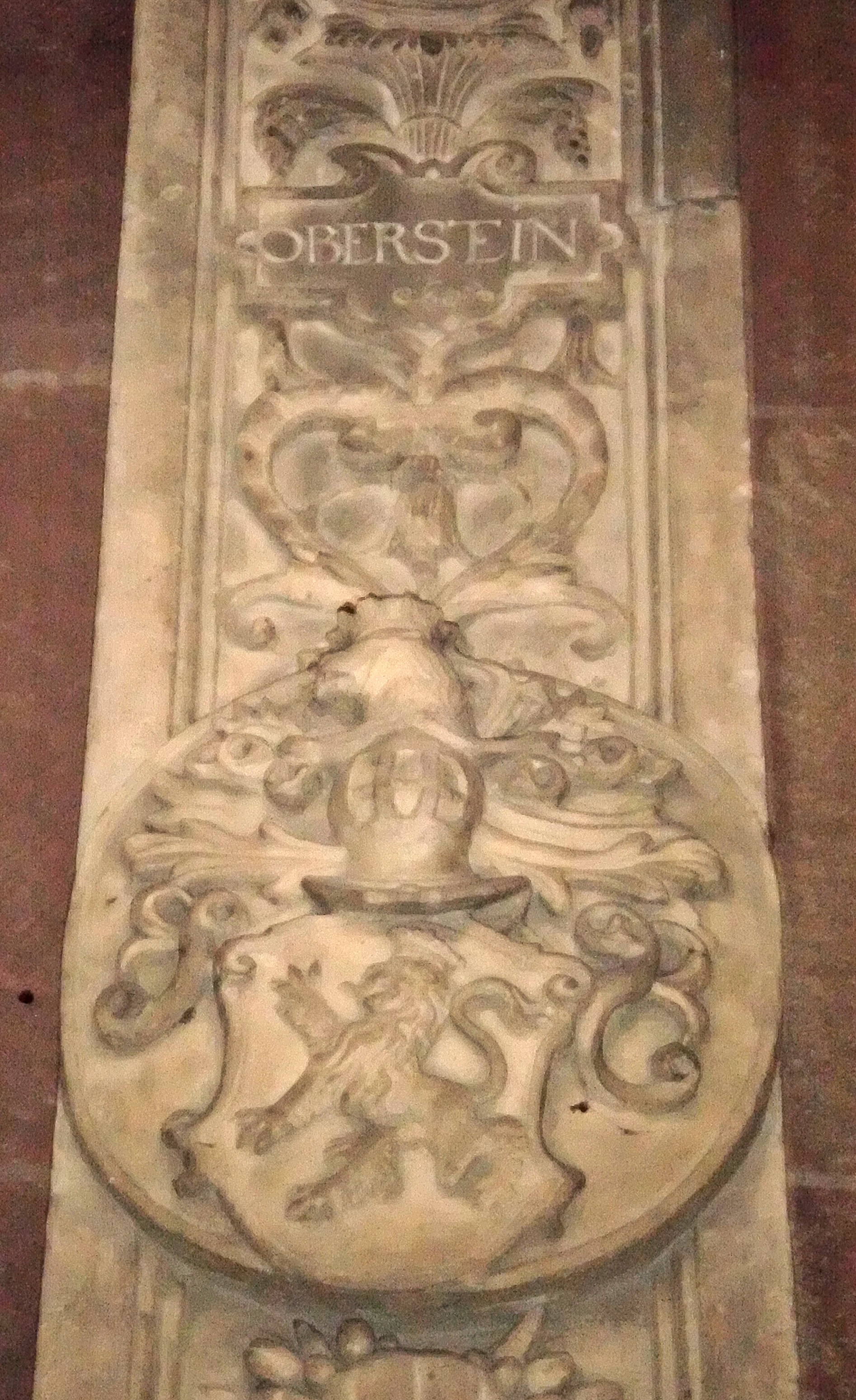 Obersteiner Adelswappen vom Grabmal des Domherrn Eberhard von Heppenheim genannt vom Saal († 1559), im Wormser Dom